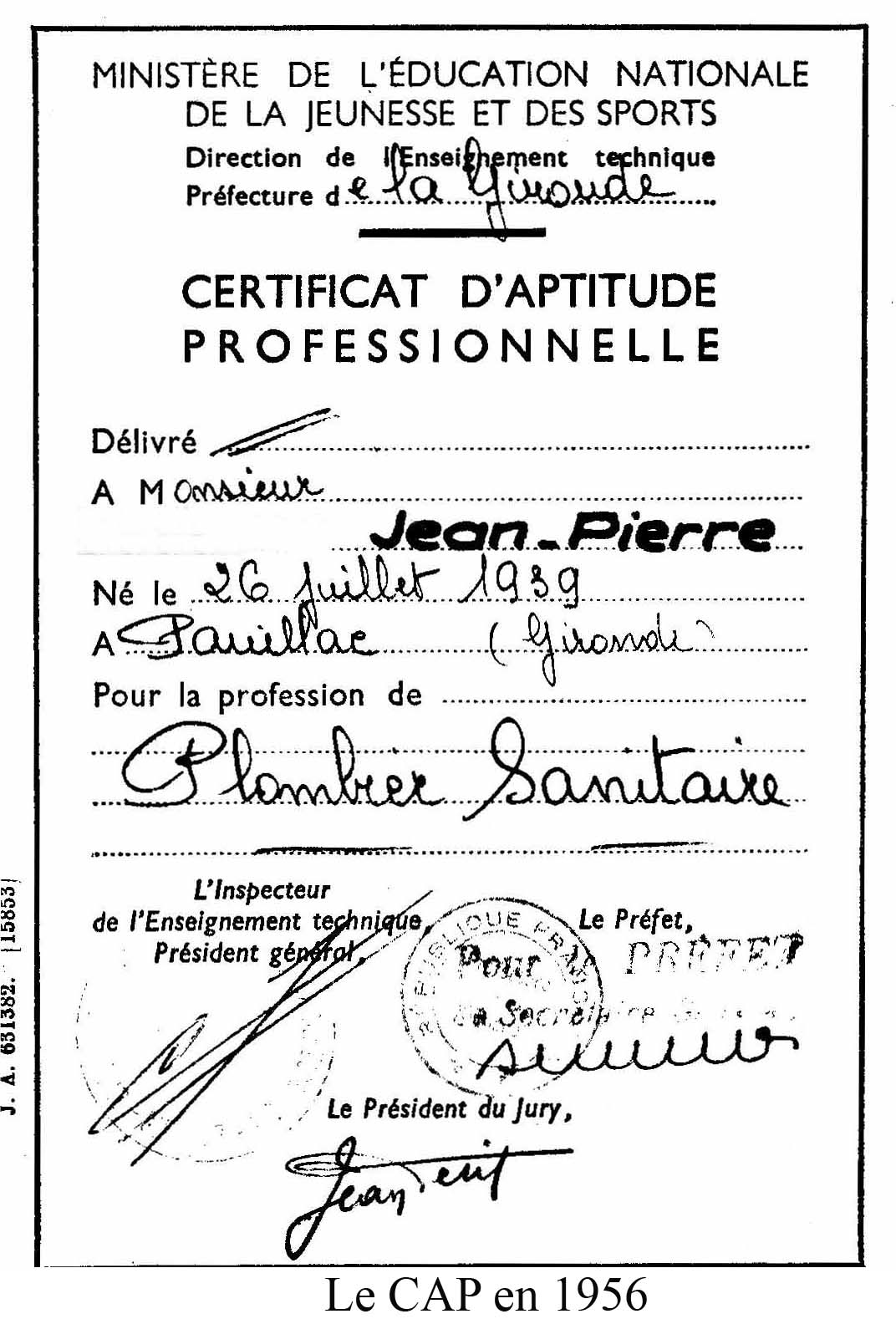 Plomber certificate in 1956.